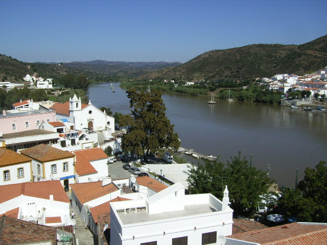 Alcoutim in Portugal on the left, in the middle the Guadiana river and on the other side Sanlúcar de Guadiana in Spain.